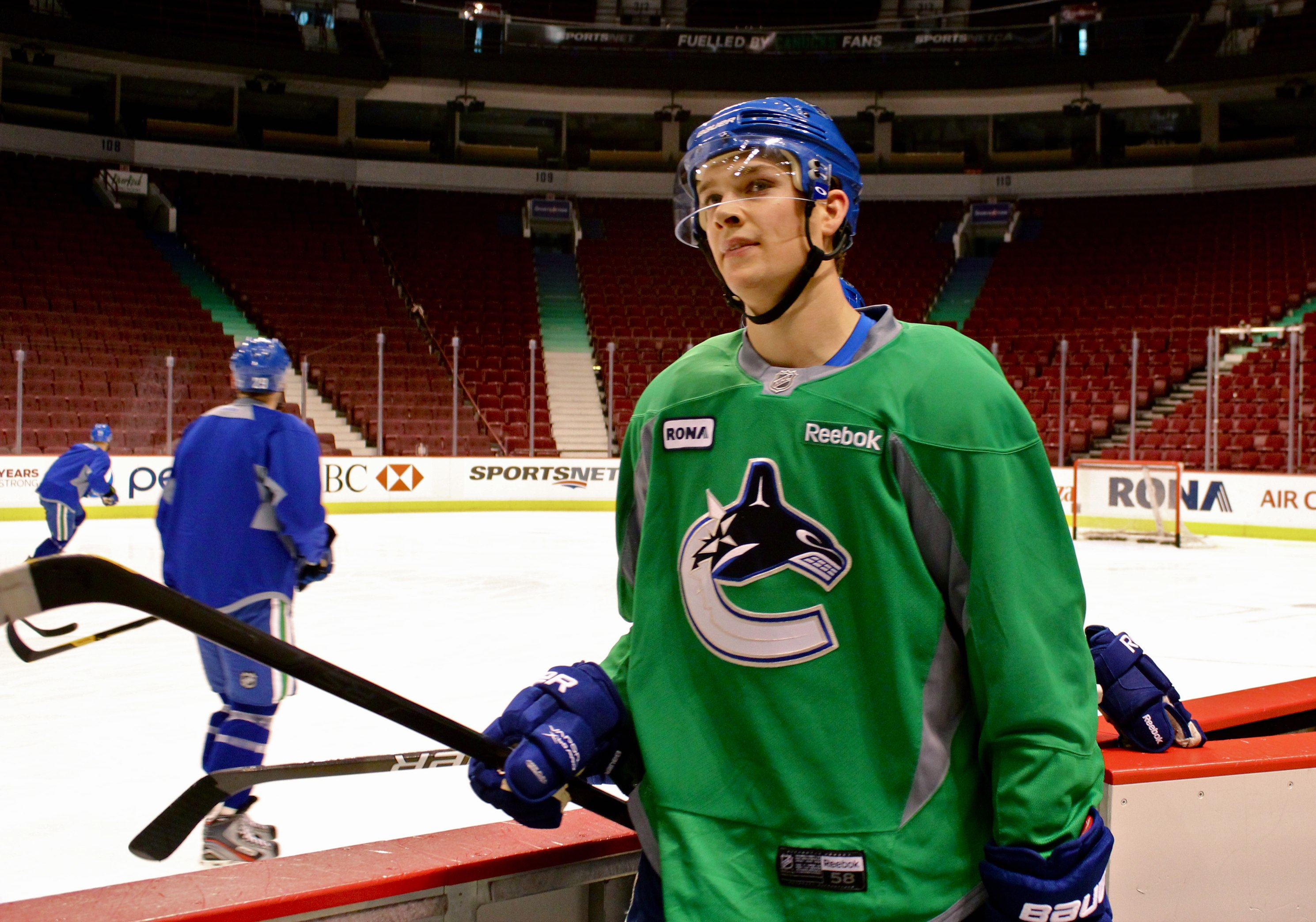 Mason Raymond on the bench at Vancouver Canucks team practice in 2012.